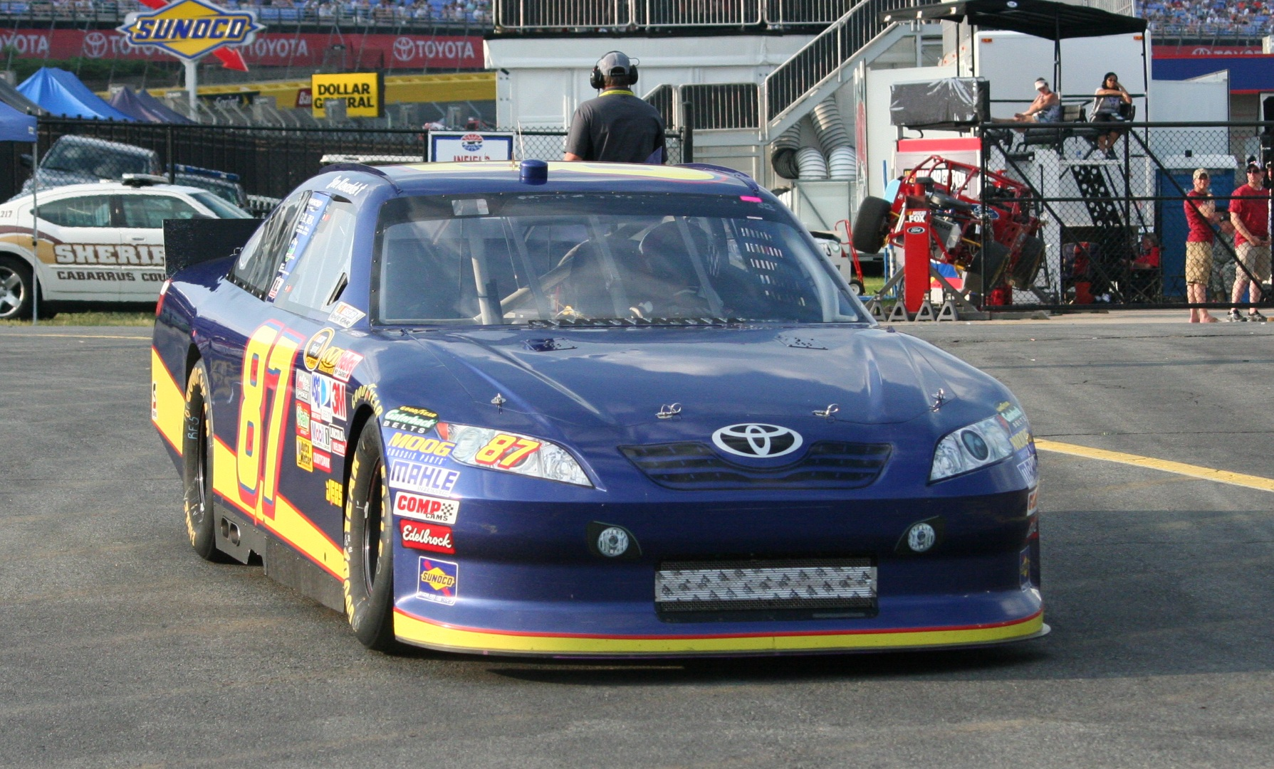 Joe Nemechek drives his No. 87 Toyota into the garage at Charlotte Motor Speedway during the Coca-Cola 600, May 29, 2011.